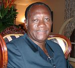 Alassane Ouattara, the former Prime Minister of Côte d'Ivoire, in 2002